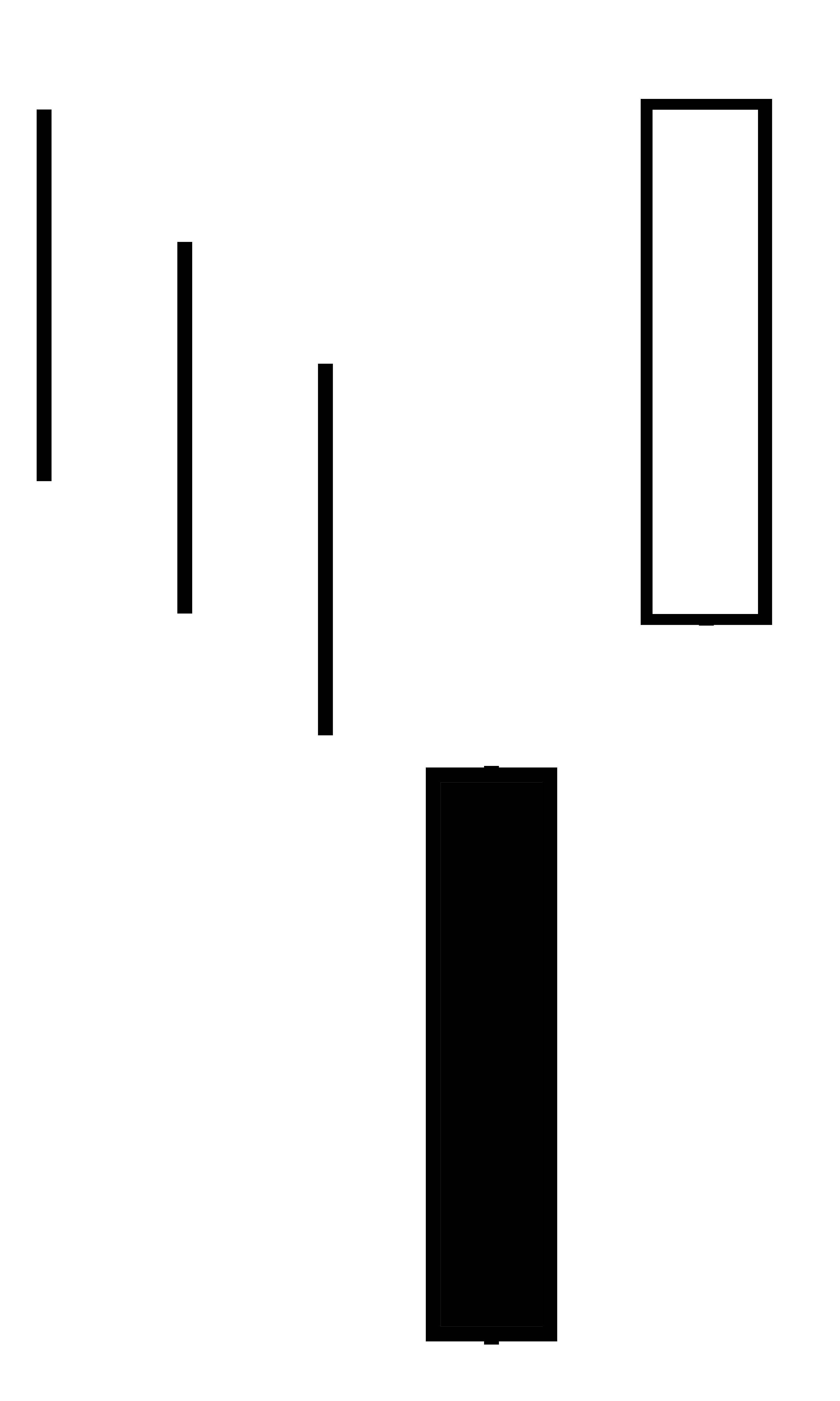 Bullish Kicking